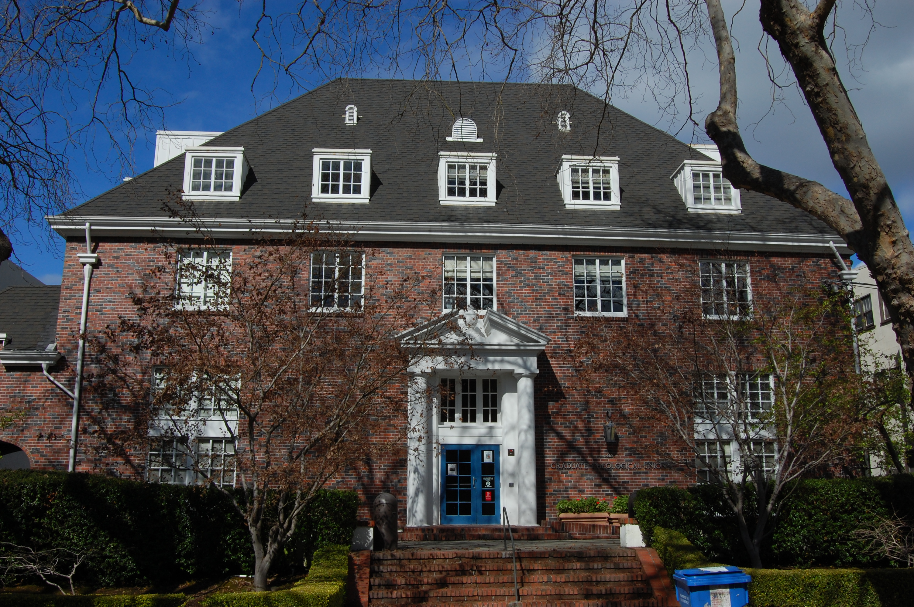 Graduate Theological Union. 2465 Le Conte Avenue. Berkeley, California, USA